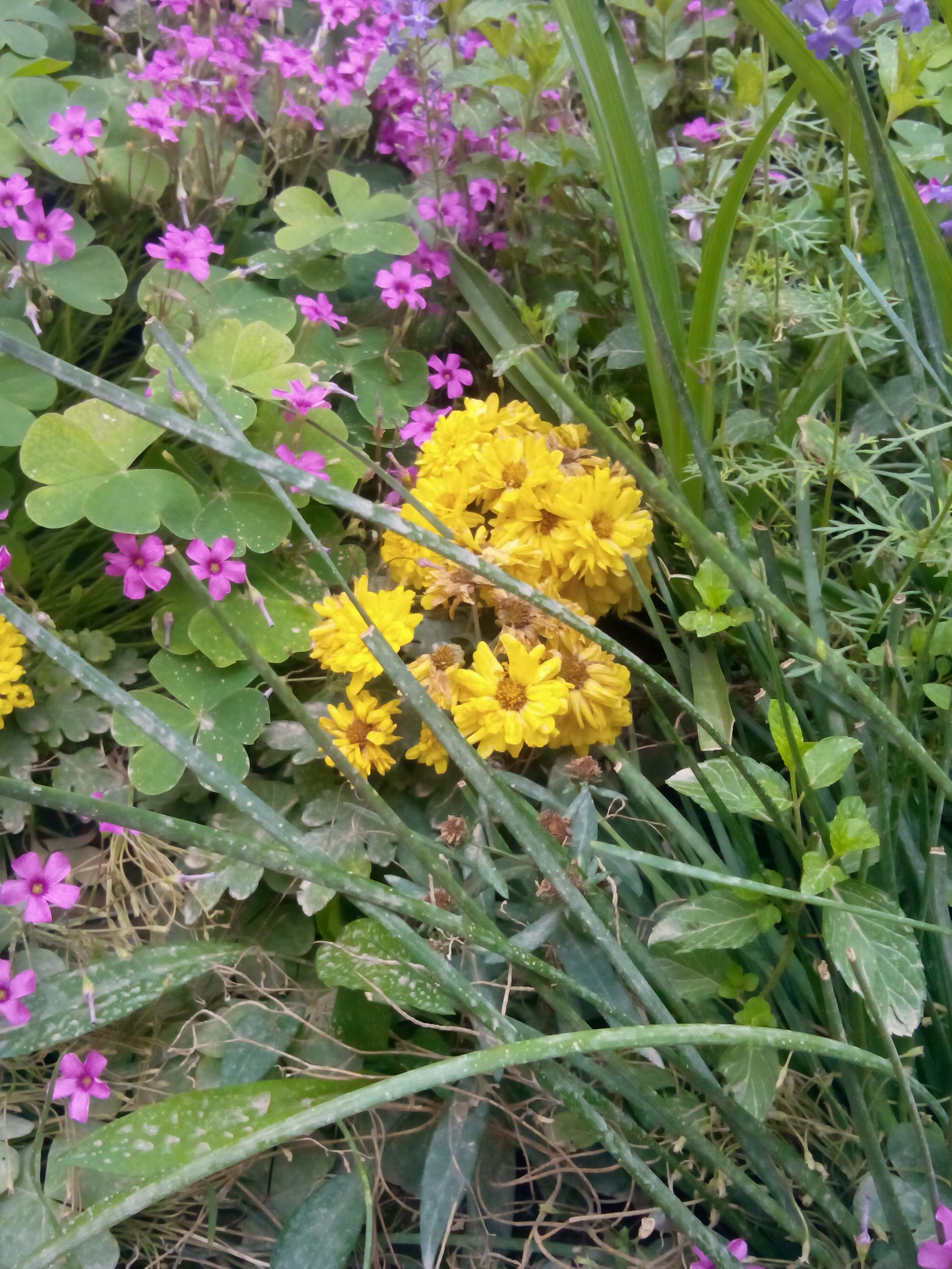 Flower's in the garden in Baghdad, Iraq